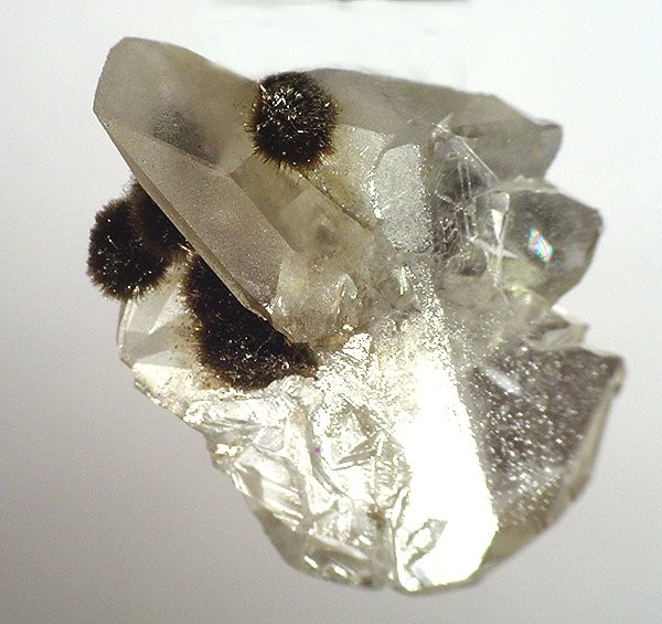 Nchwaningite, Calcite Locality: N'Chwaning Mines, Kuruman, Kalahari manganese fields, Northern Cape Province, South Africa (Locality at ) Size: 1.7 x 1.3 x 0.4 cm. Both important and attractive, this combination thumbnail has two well-formed, quality Calcites and several good sprays of Nchwaningite. Ex. Willy Israel and Pieter De Bruyn Collection.